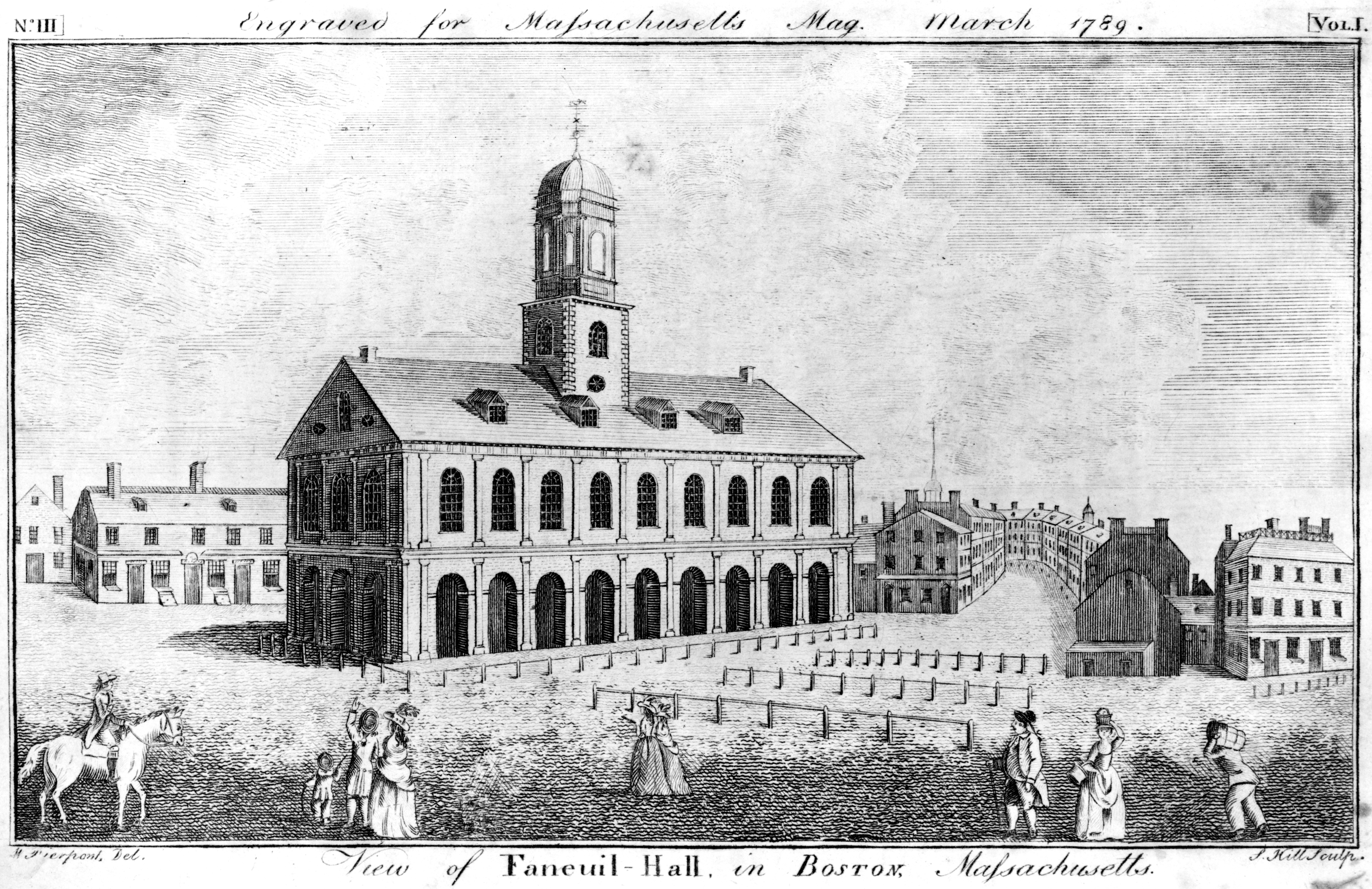 View of Faneuil-Hall in Boston, Massachusetts / W. Pierpont del. ; S. Hill sculp. Engraved for Massachusetts Mag. March 1789. Illus. in: The Massachusetts magazine, or, Monthly museum of knowledge and rational entertainment. Boston, Mass. : Isaiah Thomas and Ebenezer T. Andrews, vol. I, no. III, 1789 (March), frontispiece. Published in: The American Revolution in drawings and prints; a checklist of 1765-1790 graphics in the Library of Congress / Compiled by Donald H. Cresswell, with a foreword by Sinclair H. Hitchings. Washington : [For sale by the Supt. of Docs., U.S. Govt. Print. Off.], 1975, no. 514. Library of Congress Reproduction Number: LC-USZ62-45571 (b&w film copy neg.) Cropped, straightened and contrast-adjusted by User:TSP